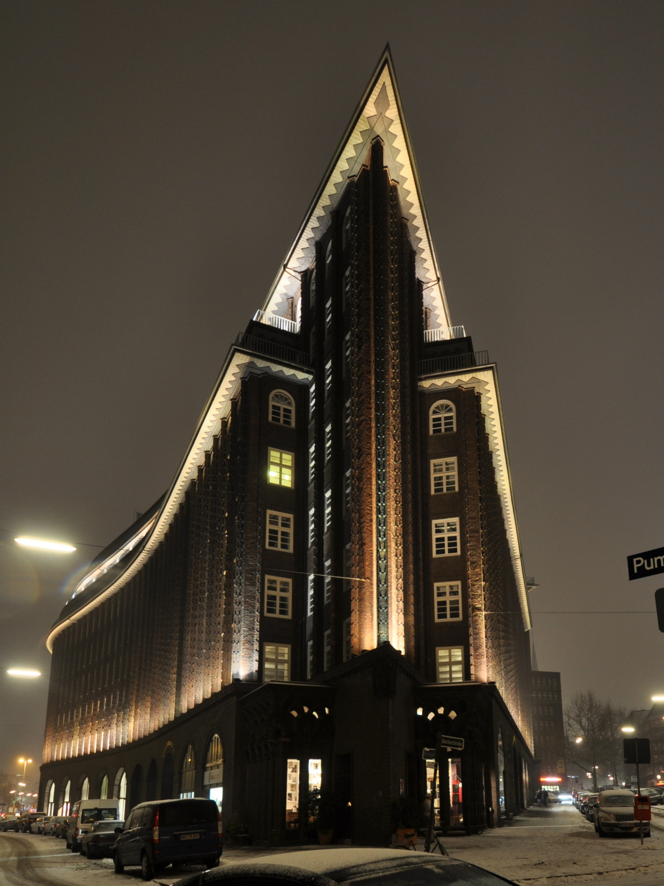 Chilehaus Hamburg.